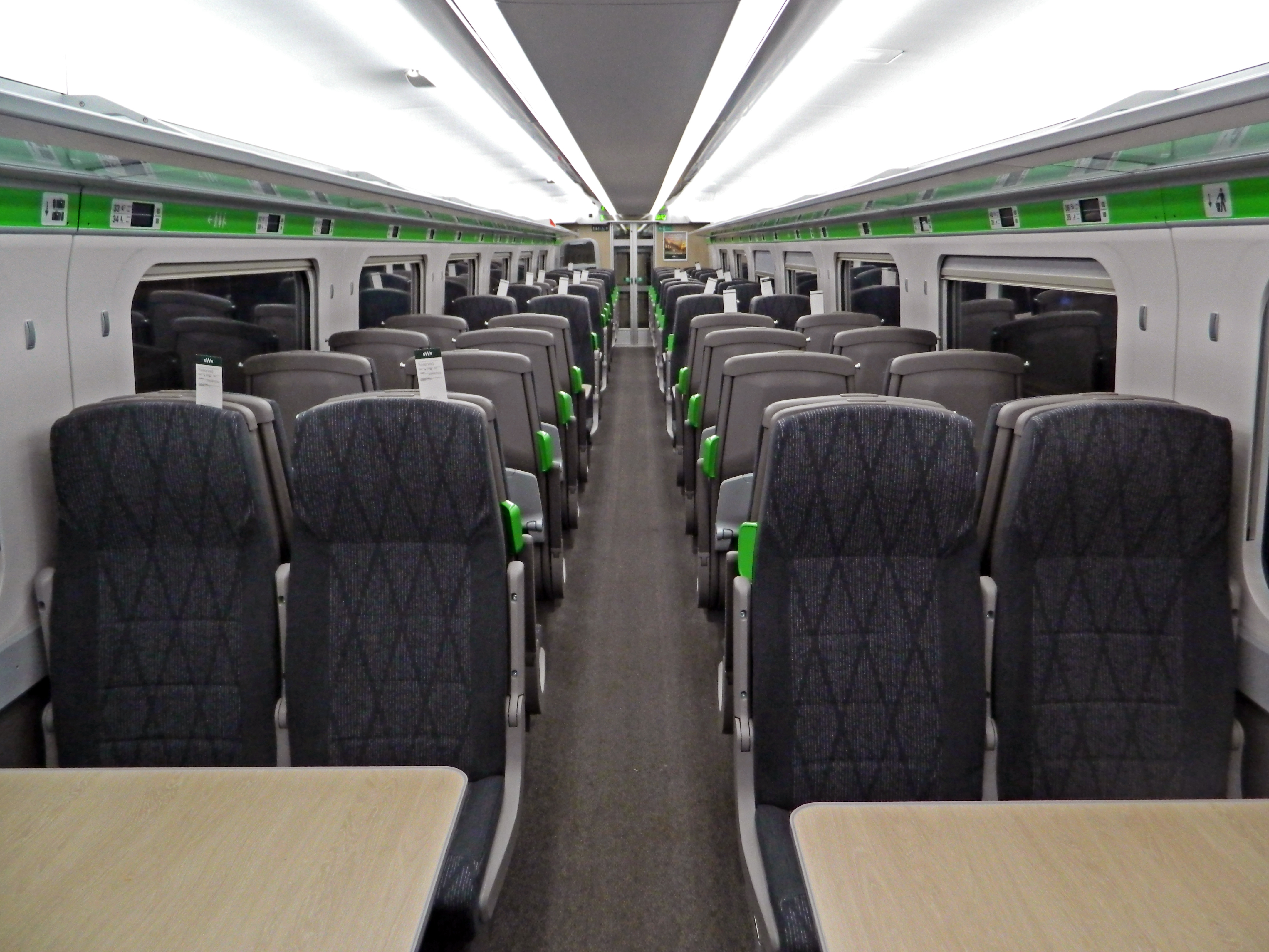 An interior photo of the Hitachi Class 802 (of Pistoia) train. Note the metro seating for this InterCity train.